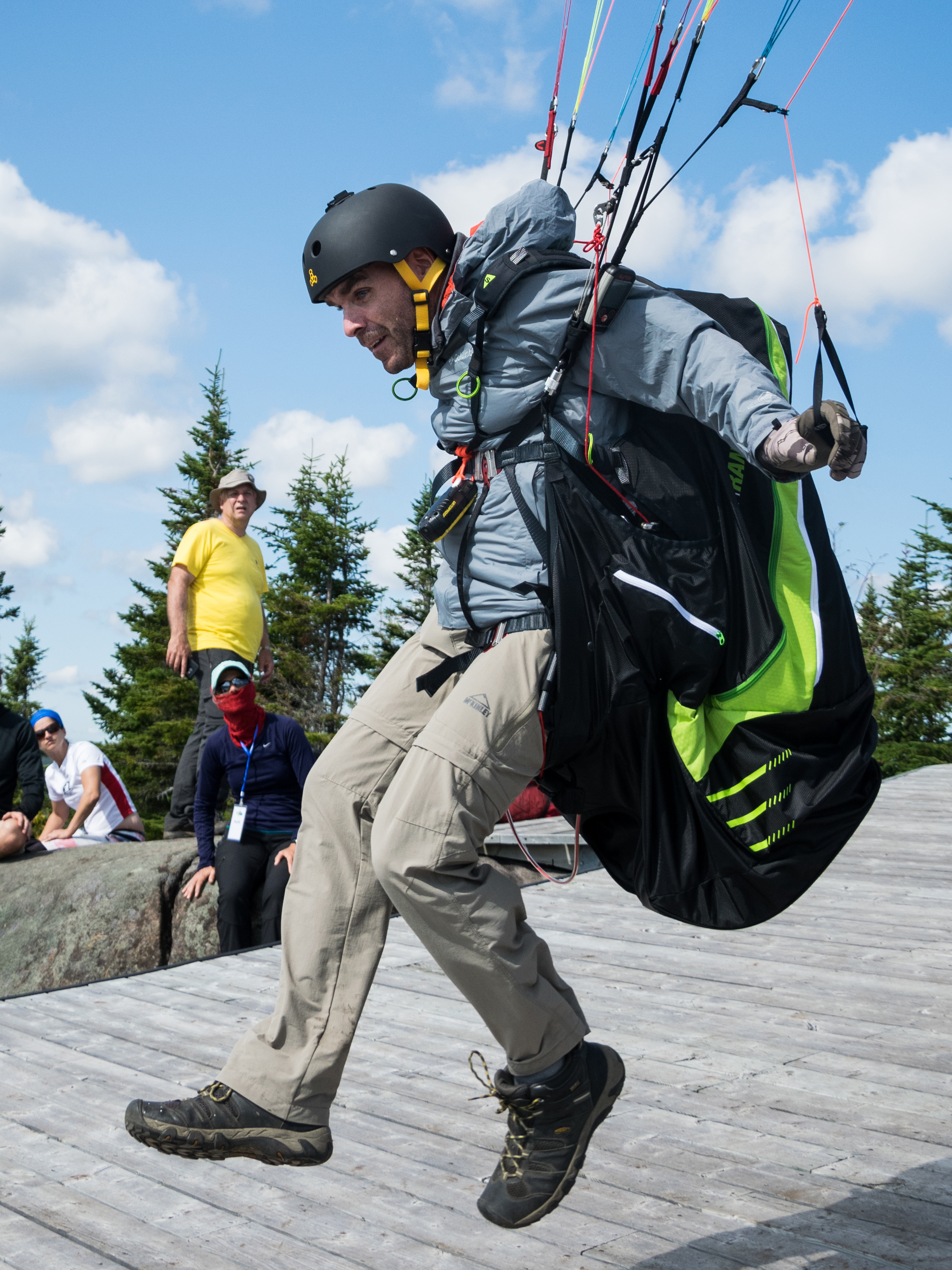 A paraglider from the Pic du Grand Corbau, Mount Valin (Quebec, Canada).